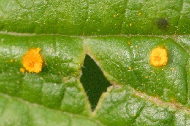 Phragmidium rubi-idaei (the only rust fungus on Rubus idaeus) from Commanster, Belgian High Ardennes. The determination of the species shown in this picture has been verified.